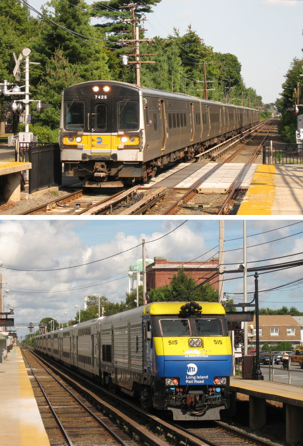 Long Island Rail Road provides services using electric trains and diesel (and dual-mode) trains. The top picture is in Garden City, and the bottom picture is in Farmingdale.